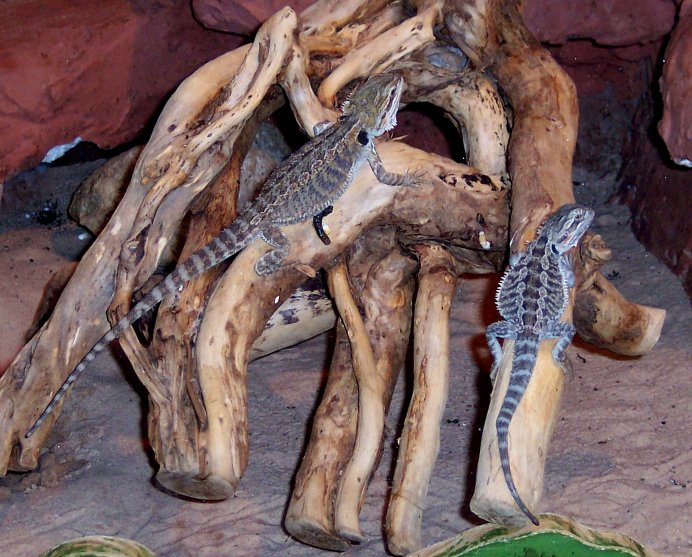 Bearded Dragons in the Plantasia hothouse, Swansea, UK.